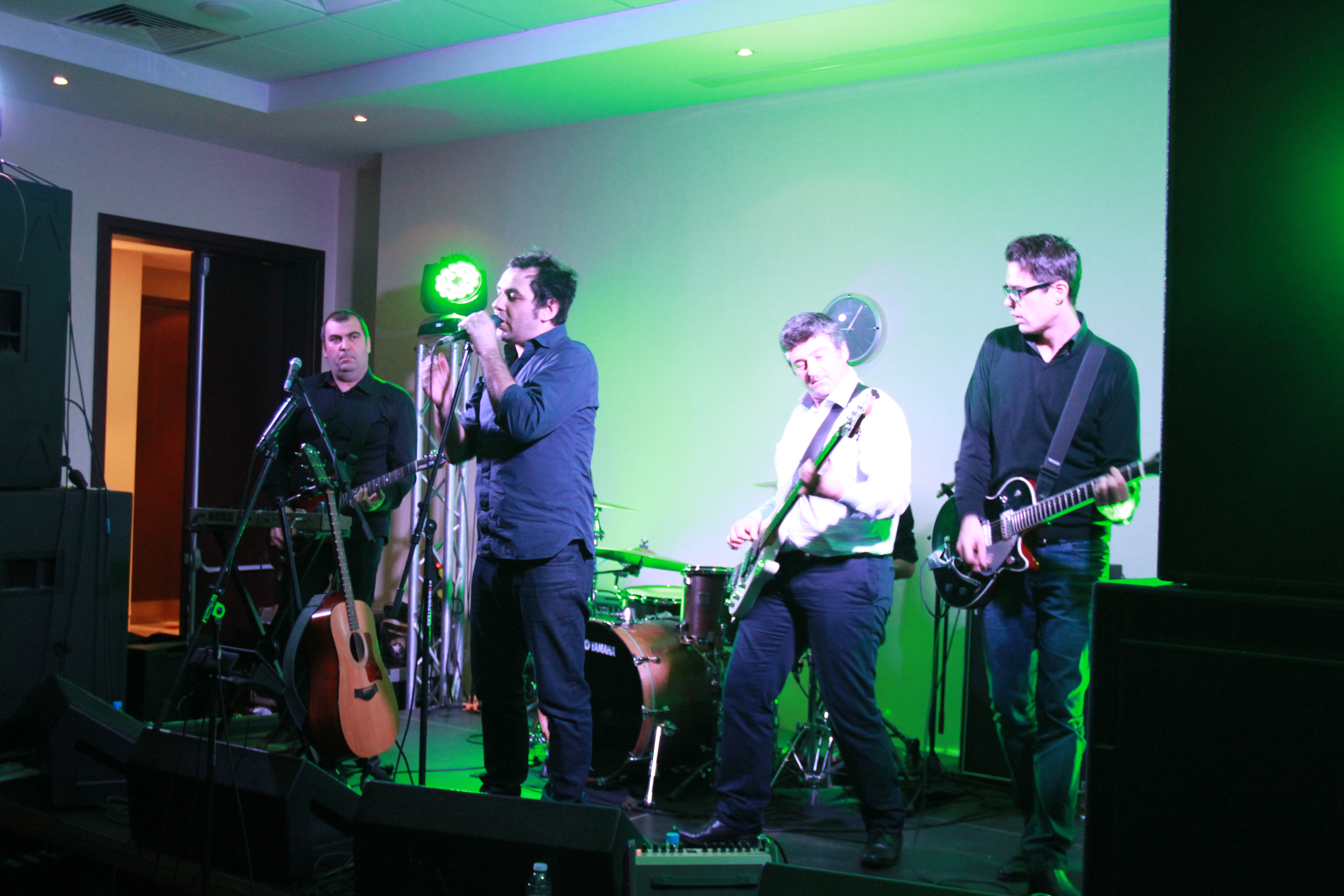 The Bulgarian band OSTAVA during the performance, December 22, 2012, Sofia, Bulgaria